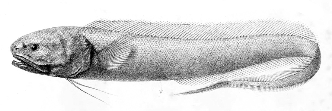 Bassozetus oncerocephalus